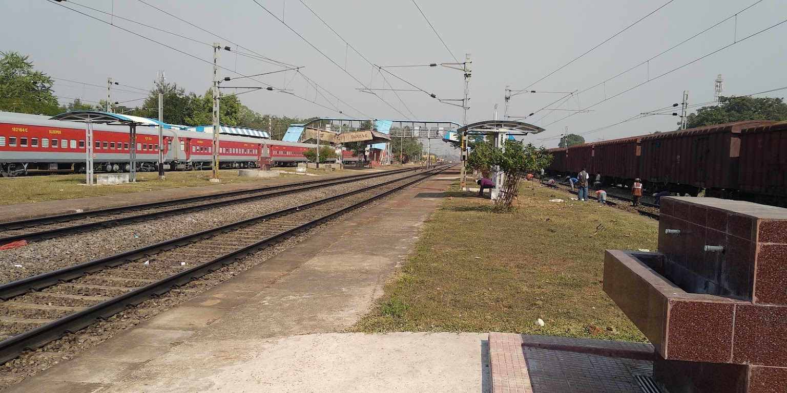 This is the Picture of Tapang railway station